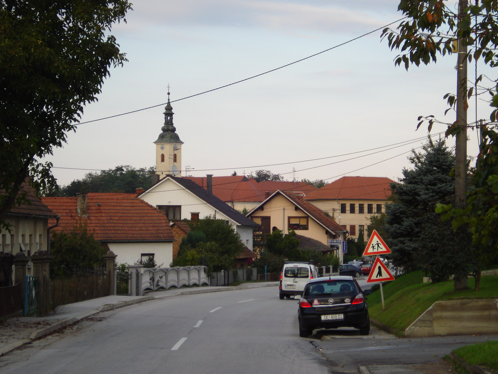 Sveti Martin na Muri (Međimurje County, Croatia) - west view